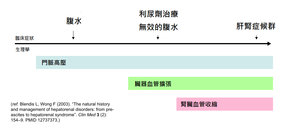 Figure demonstrating the correlation between hemodynamics and clinical consequences in ascites and hepatorenal syndrome.